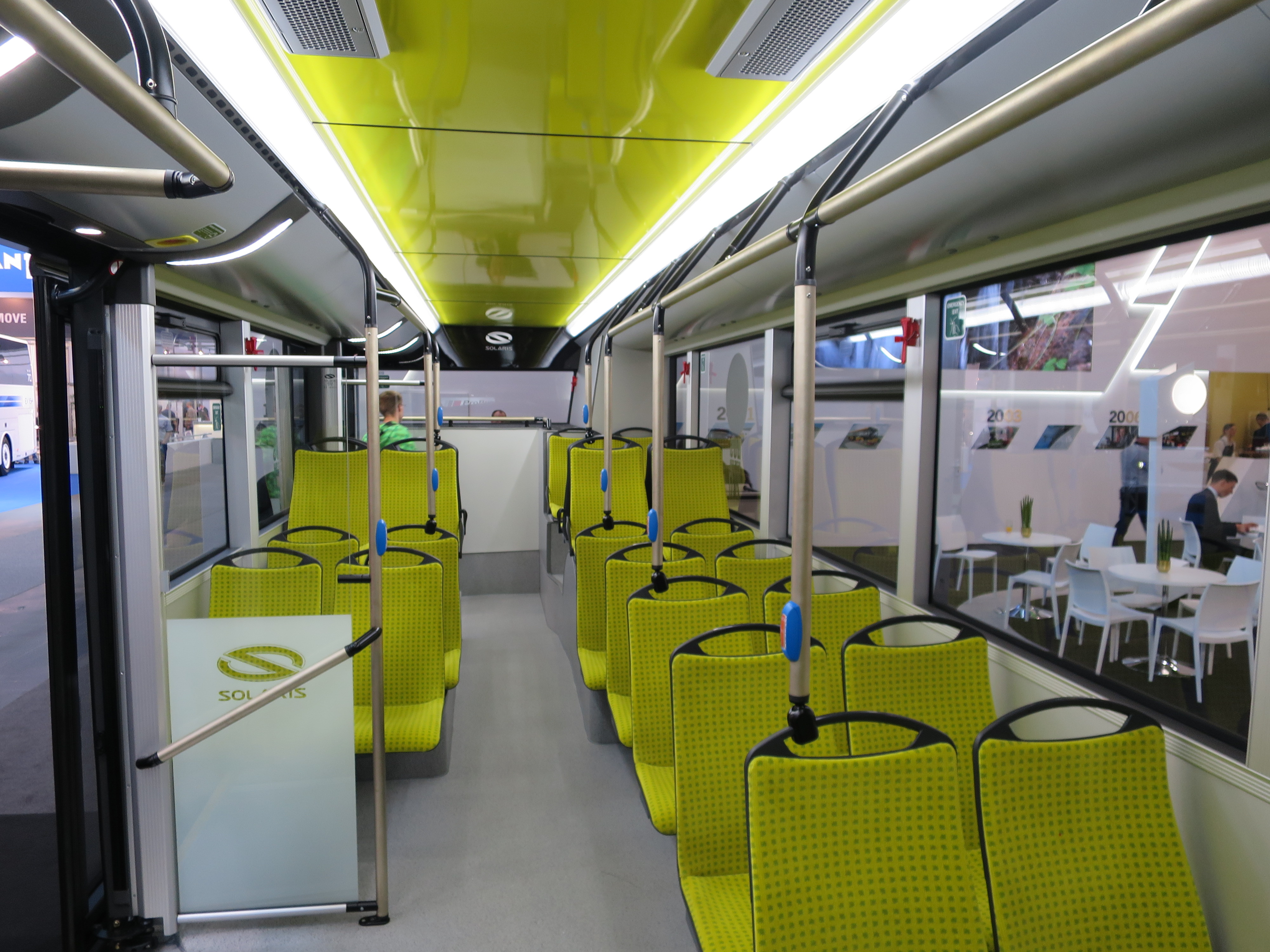 The making of this document was supported by Wikimedia Polska Association, within Wikigrant no. WG 2016-35. Solaris Urbino 12 electric